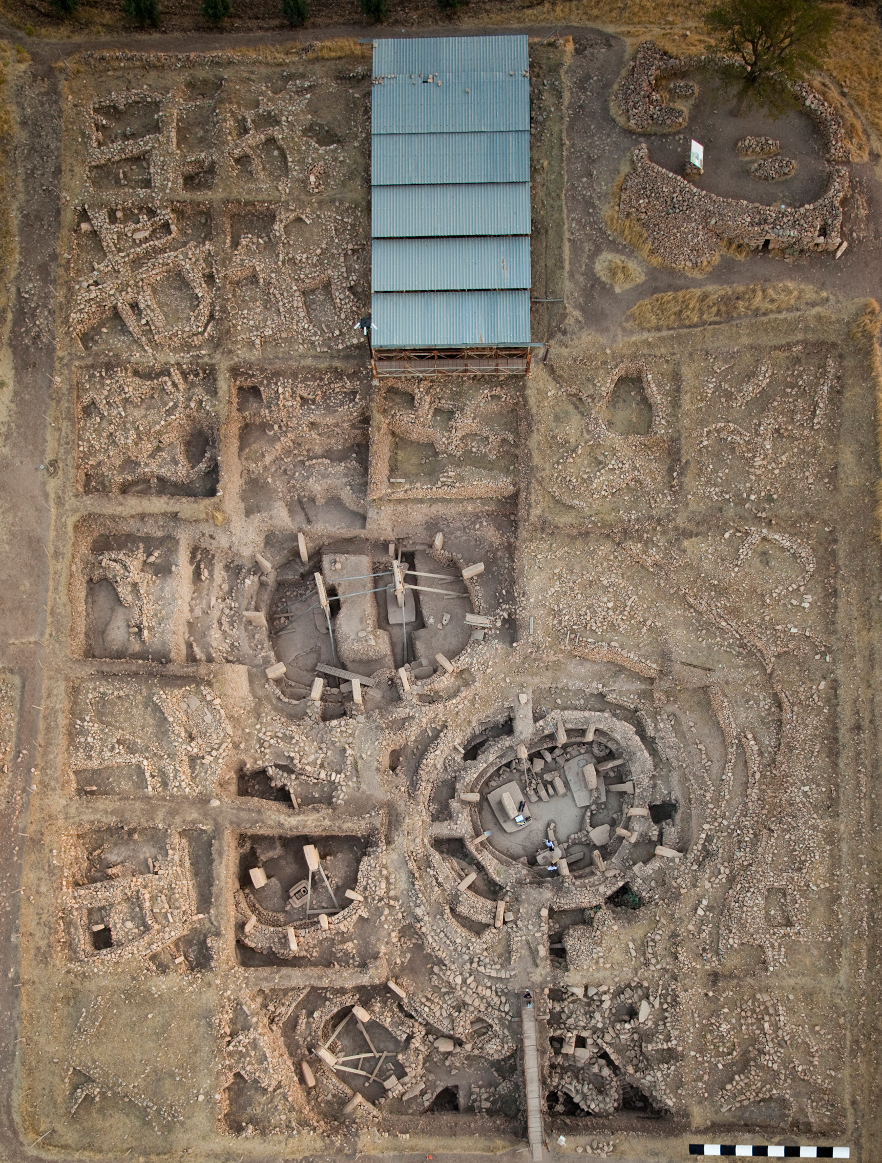 The archaeological site of Göbekli Tepe: main excavation area with four monumental circular buildings and adjacent rectangular buildings (German Archaeological Institute, photo E. Kücük).